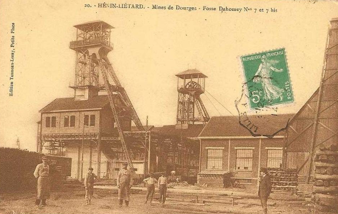 Compagnie des mines de Dourges, Pas-de-Calais, France.